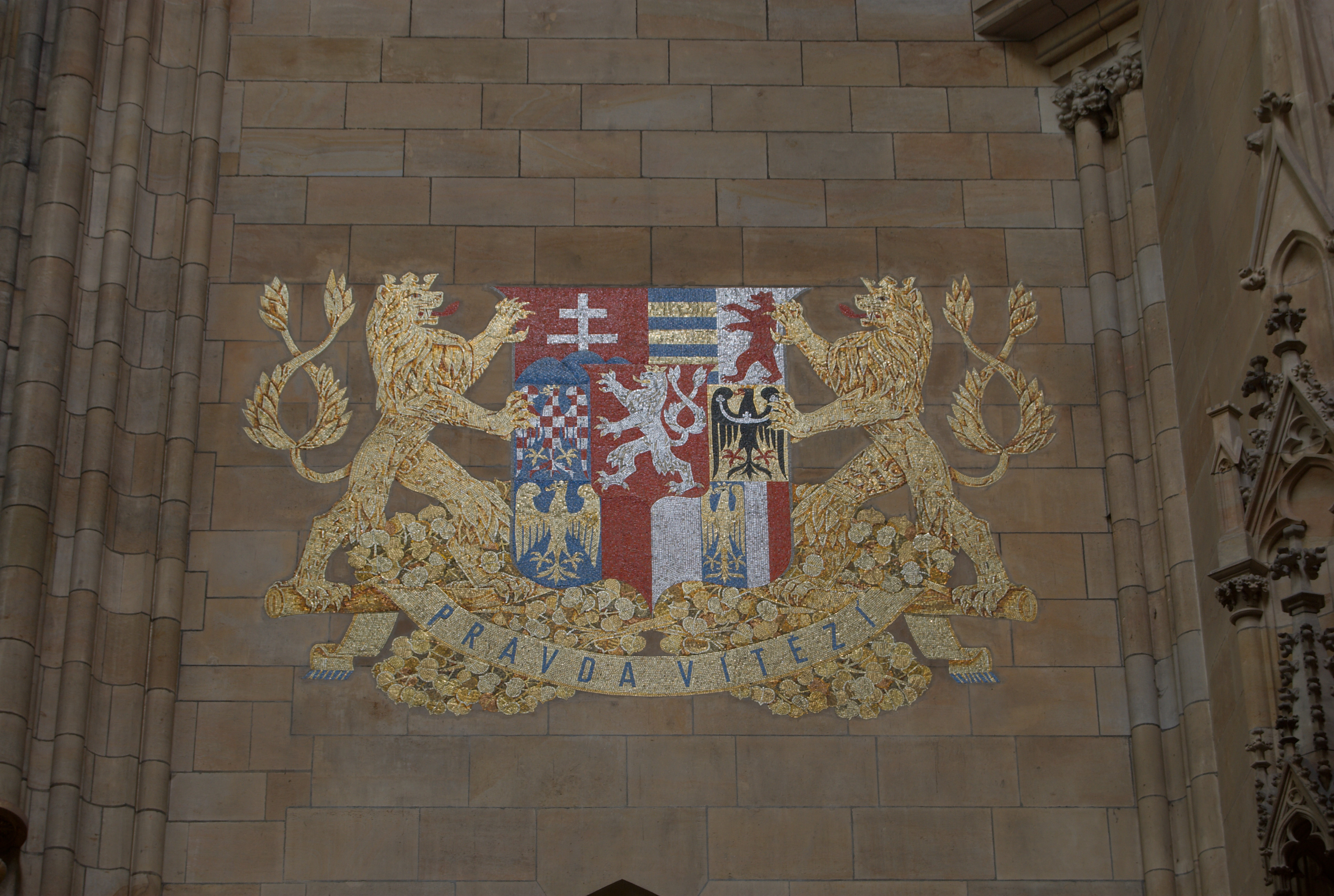 Coat of Arms of former Czechoslovakia in St. Vitus Cathedral in Prague, Czechia